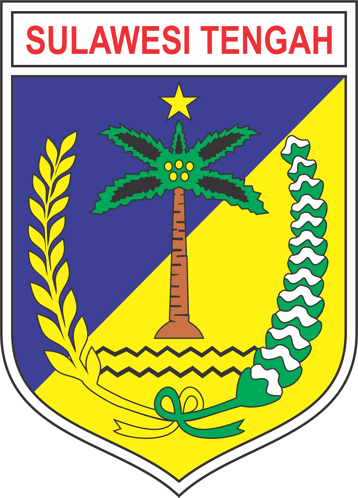 Coat of Arms of Indonesian province of Central Sulawesi.